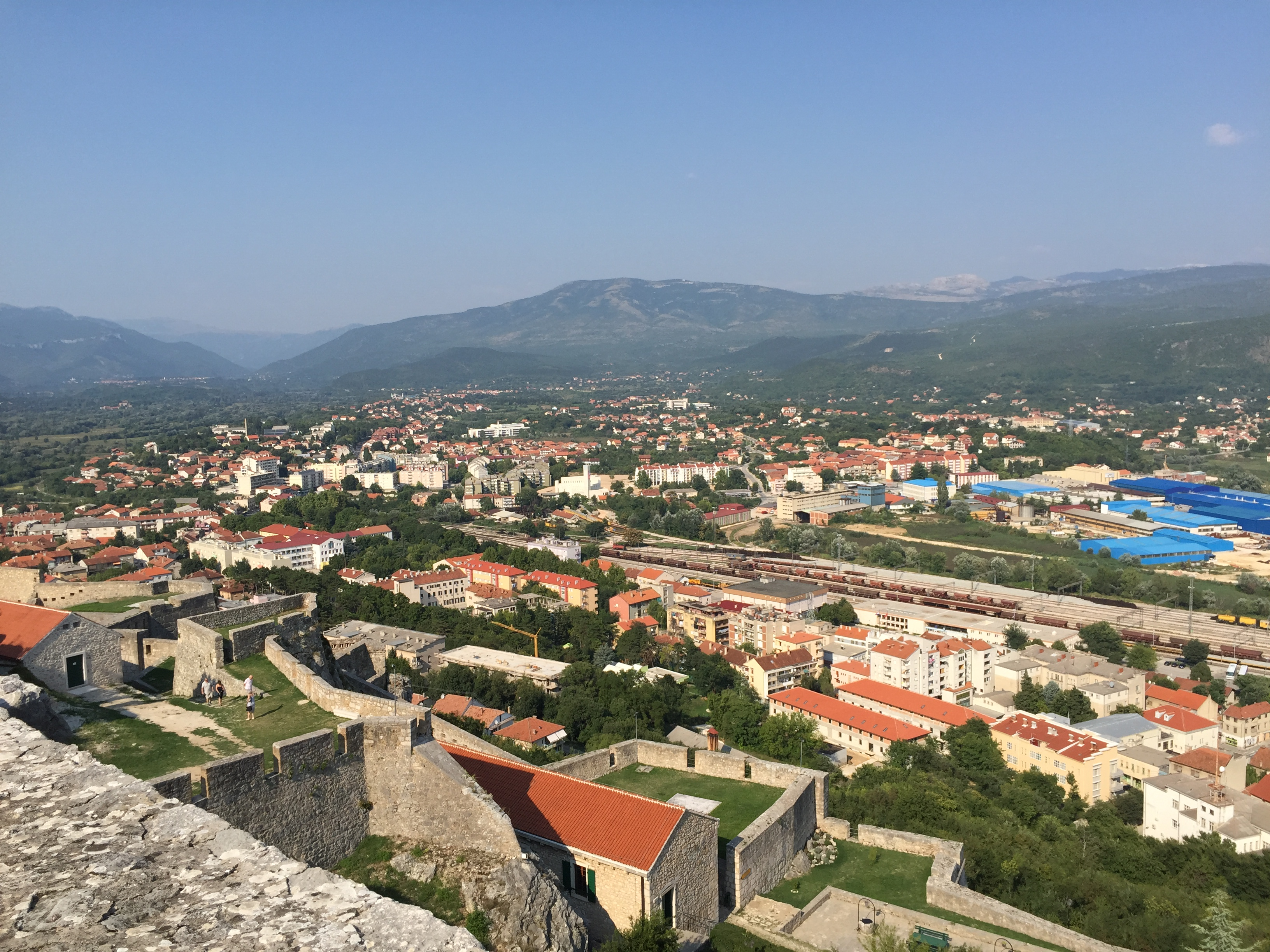 a view of the city of Knin, Croatia, from Knin Fortress